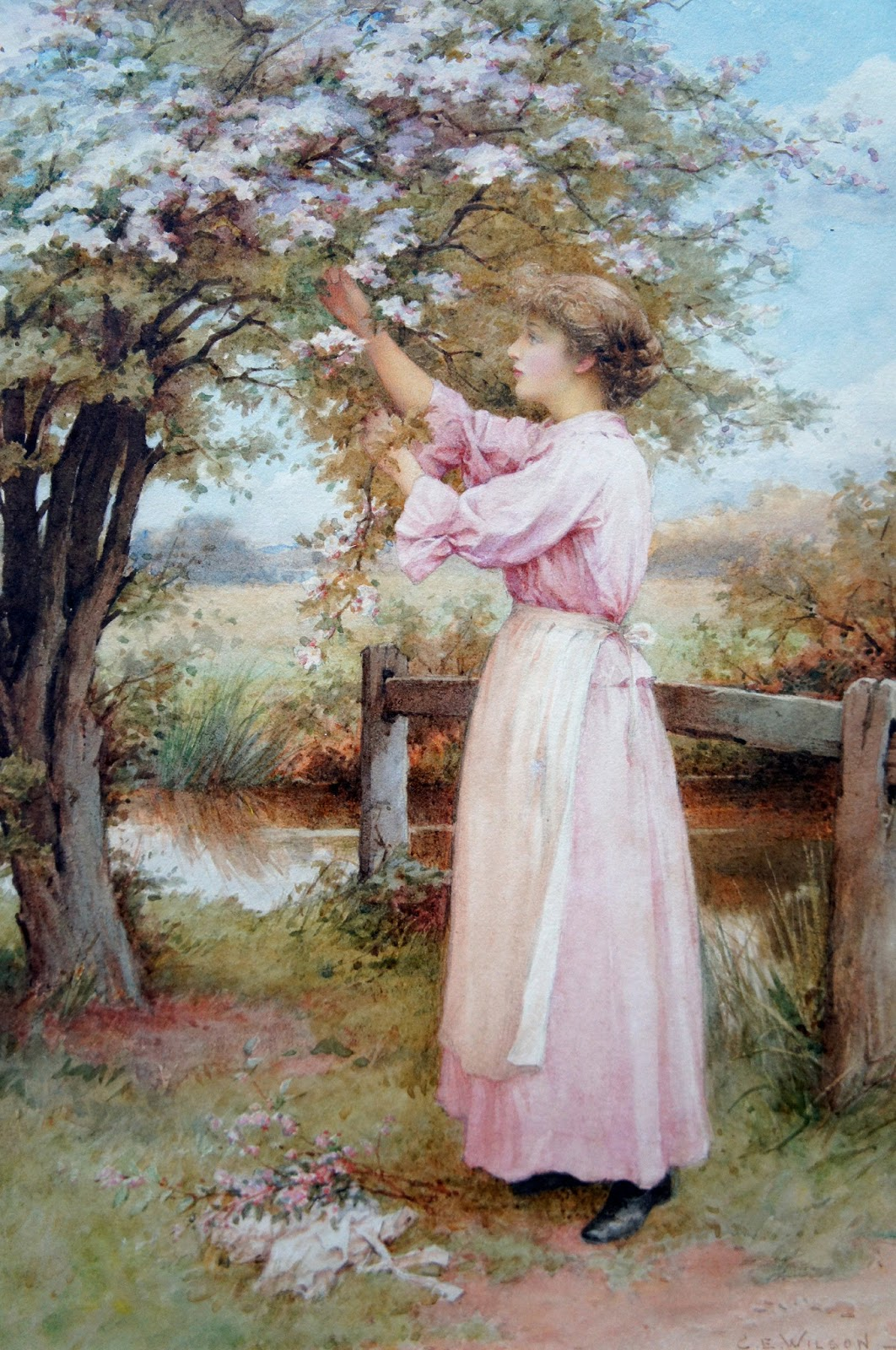 Apple Blossoms